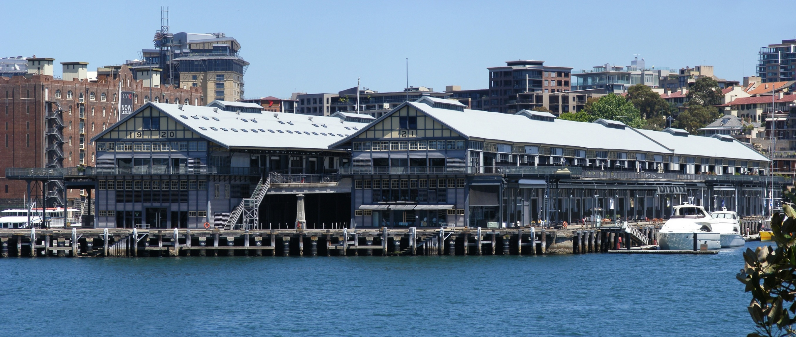 Pyrmont Wharfs